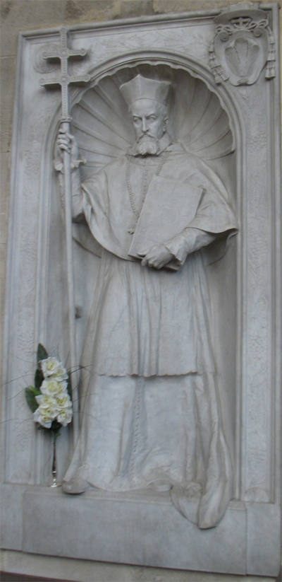 Peter Pázmány